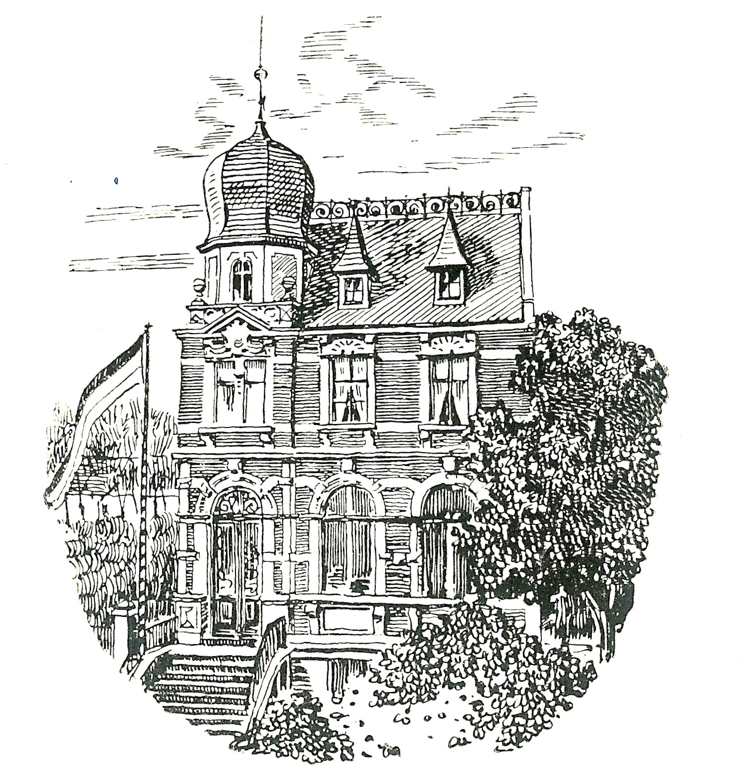 Former house of student fraternity Corps Palaiomarchia Halle, Jägerplatz 20 in Halle on the Saale, Saxony-Anhalt/Germany